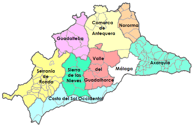 Map of province of Málaga divided in regions, Spain